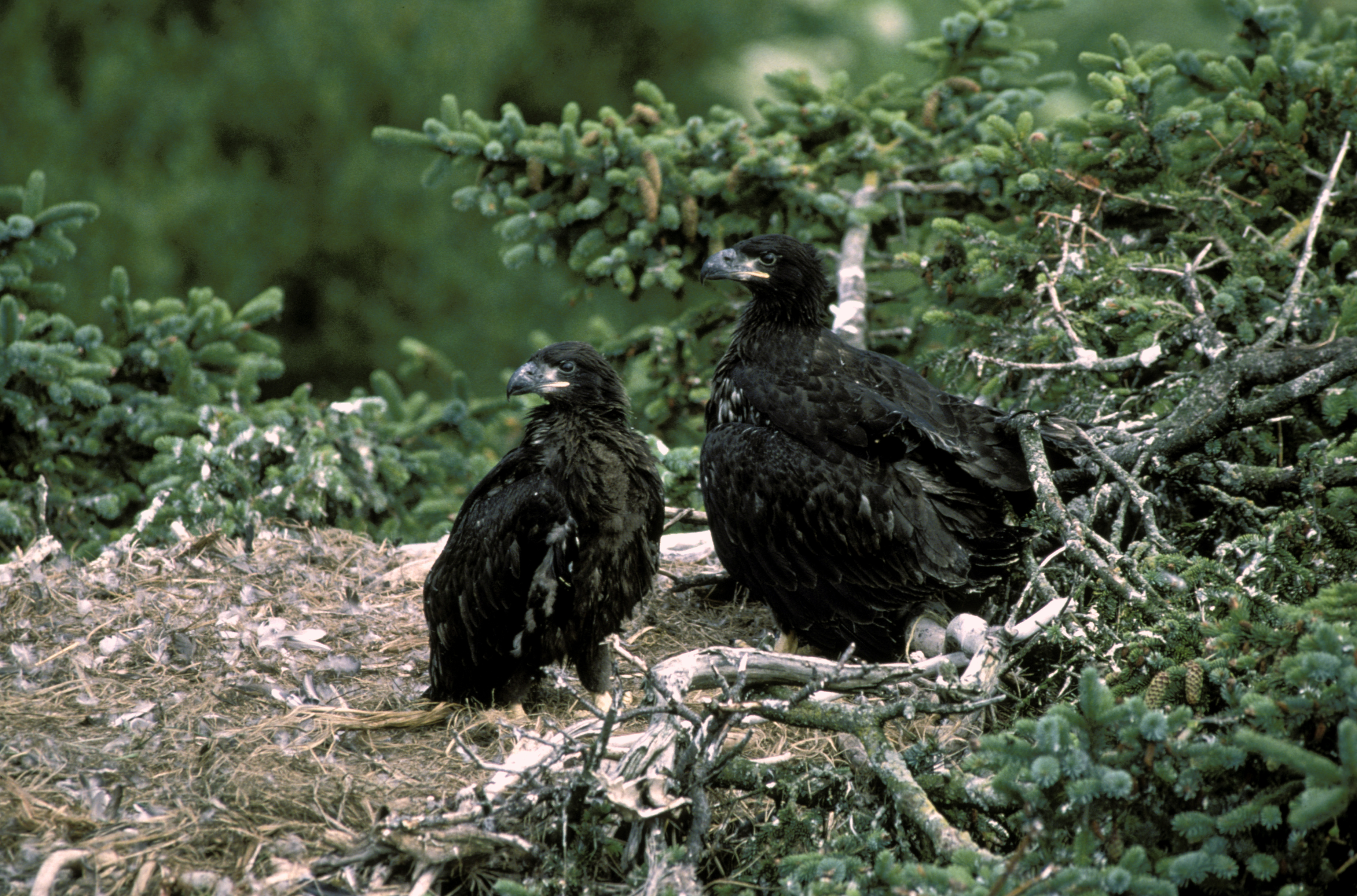 Immature bald eagles (Haliaeetus leucocephalus) in nest in Picea sitchensis